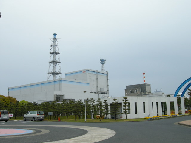 Tōkai Nuclear Power Plant, Unit 1 and 2